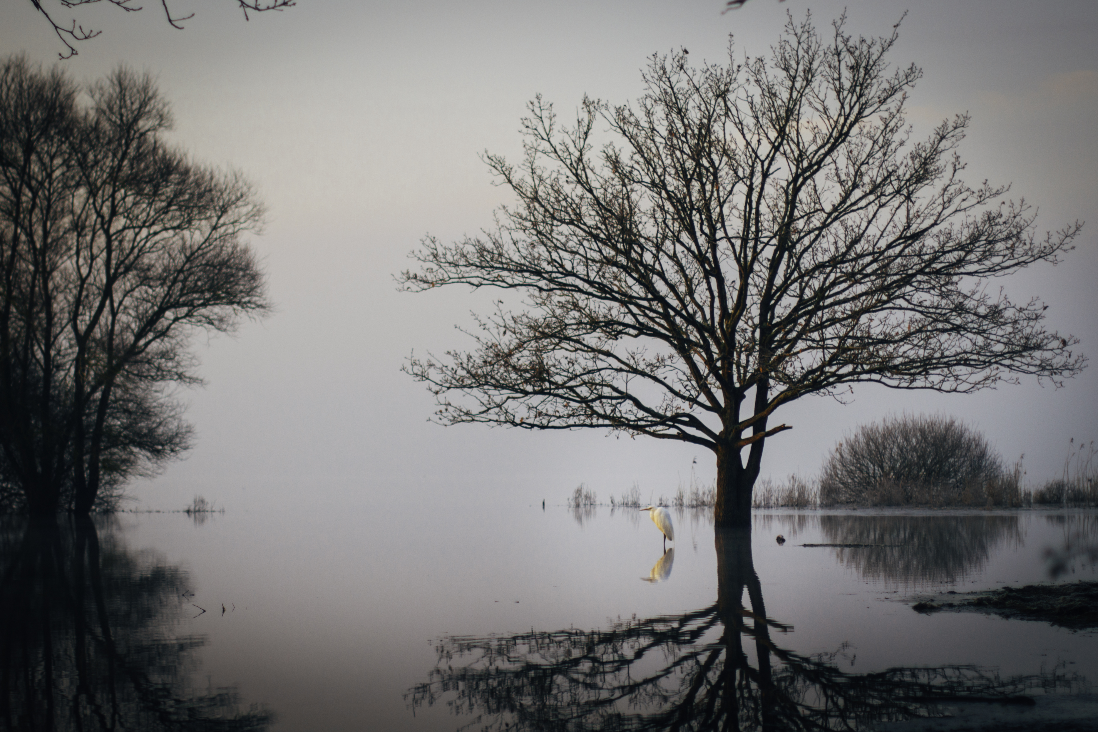 By a very cold early morning, this bird evokes serenity, majestic on the lac de Grand-Lieu. Pierre Aigue site.